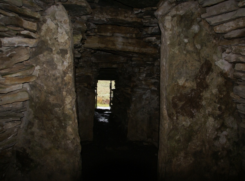 Grey Cairns of Camster, Caithness, Scotland - Camster Long Cairn, interior northern chamber